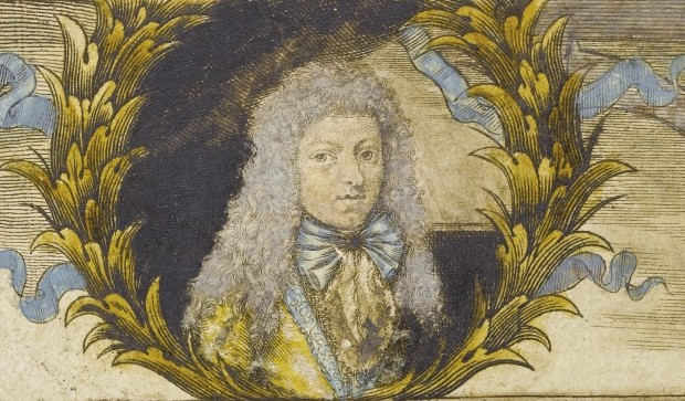 Portrait of composer Johann Kuhnau (1660-1722) from the cover of his Neue Clavier-Übung, erster Theil (1689).